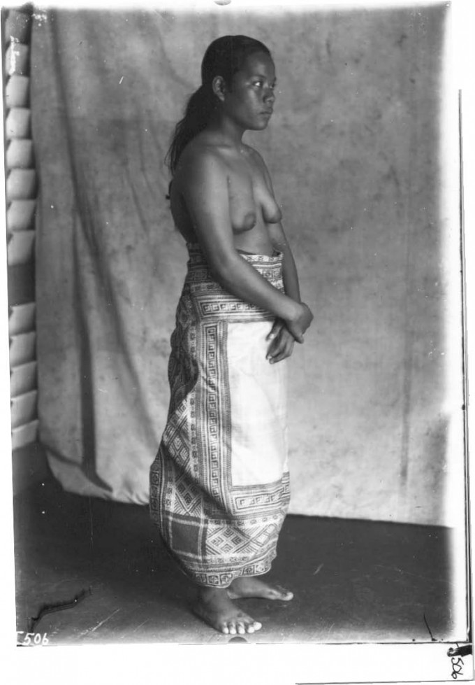 Liijabor from Likiep Island, Likiep Atoll (Marshall islands), wearing a traditional nieded or clothing mat.